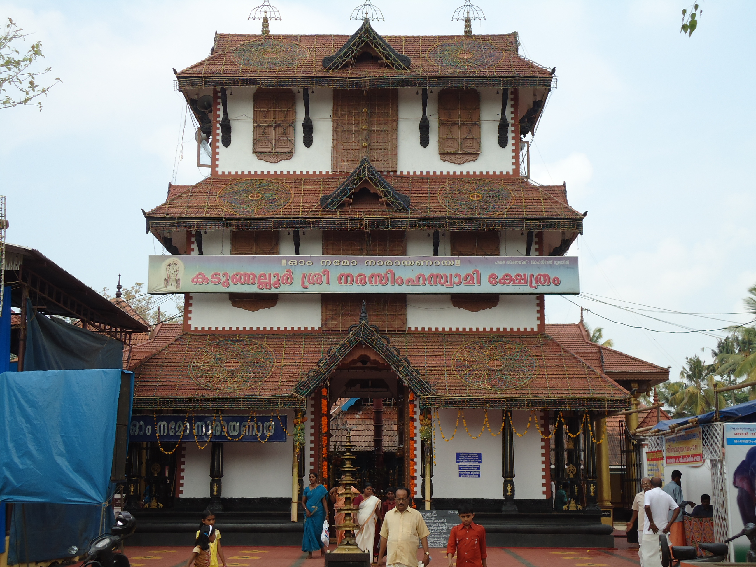 Kadungalloor_sree_narasimhaswami_temple